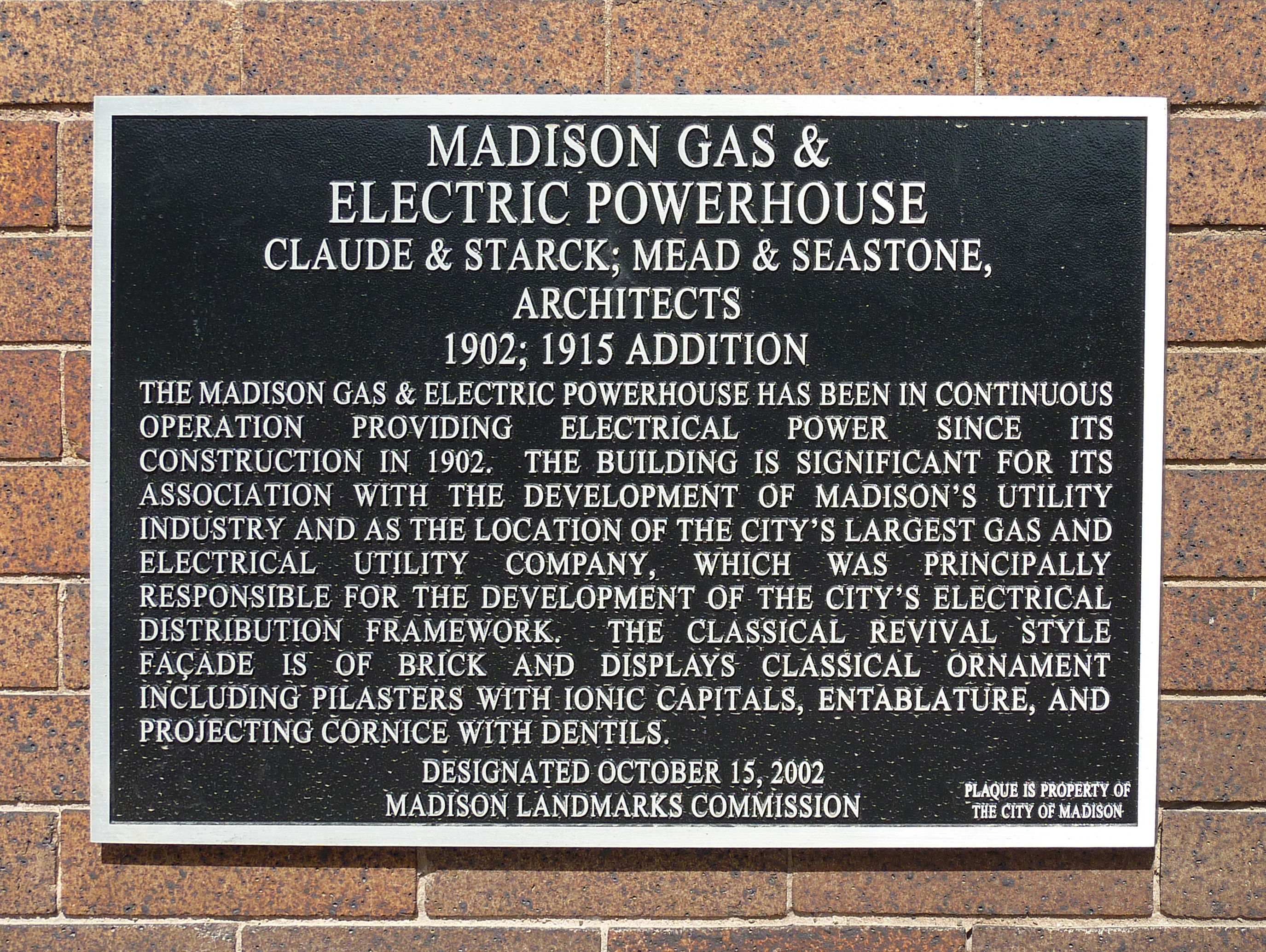 Marker at the Madison Gas and Electric Powerhouse.